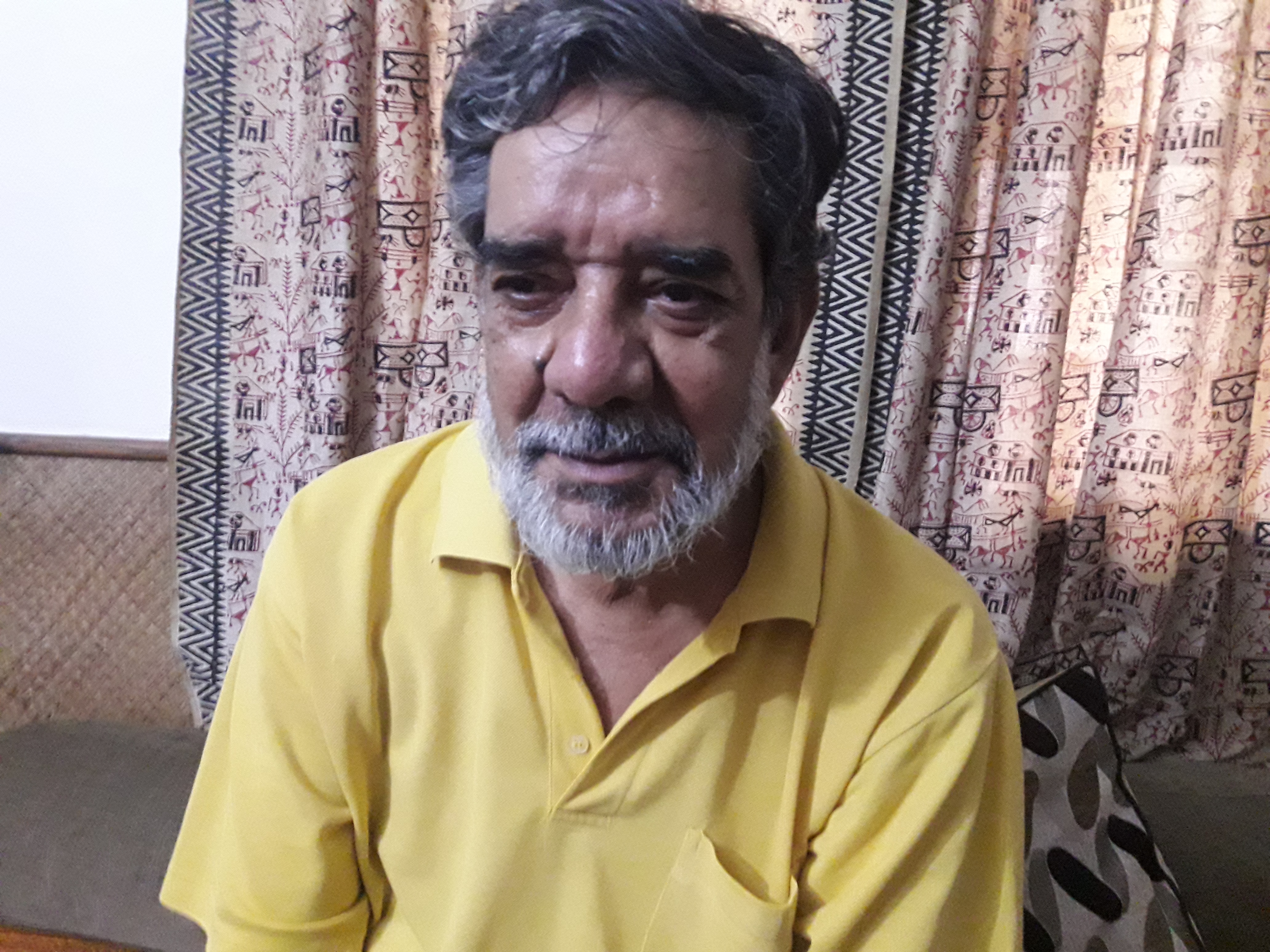 Hindi language Indian poet Rajesh Joshi at his home in Nirala Nagar, Bhopal, Madhya Pradesh, India on 8 July 2017